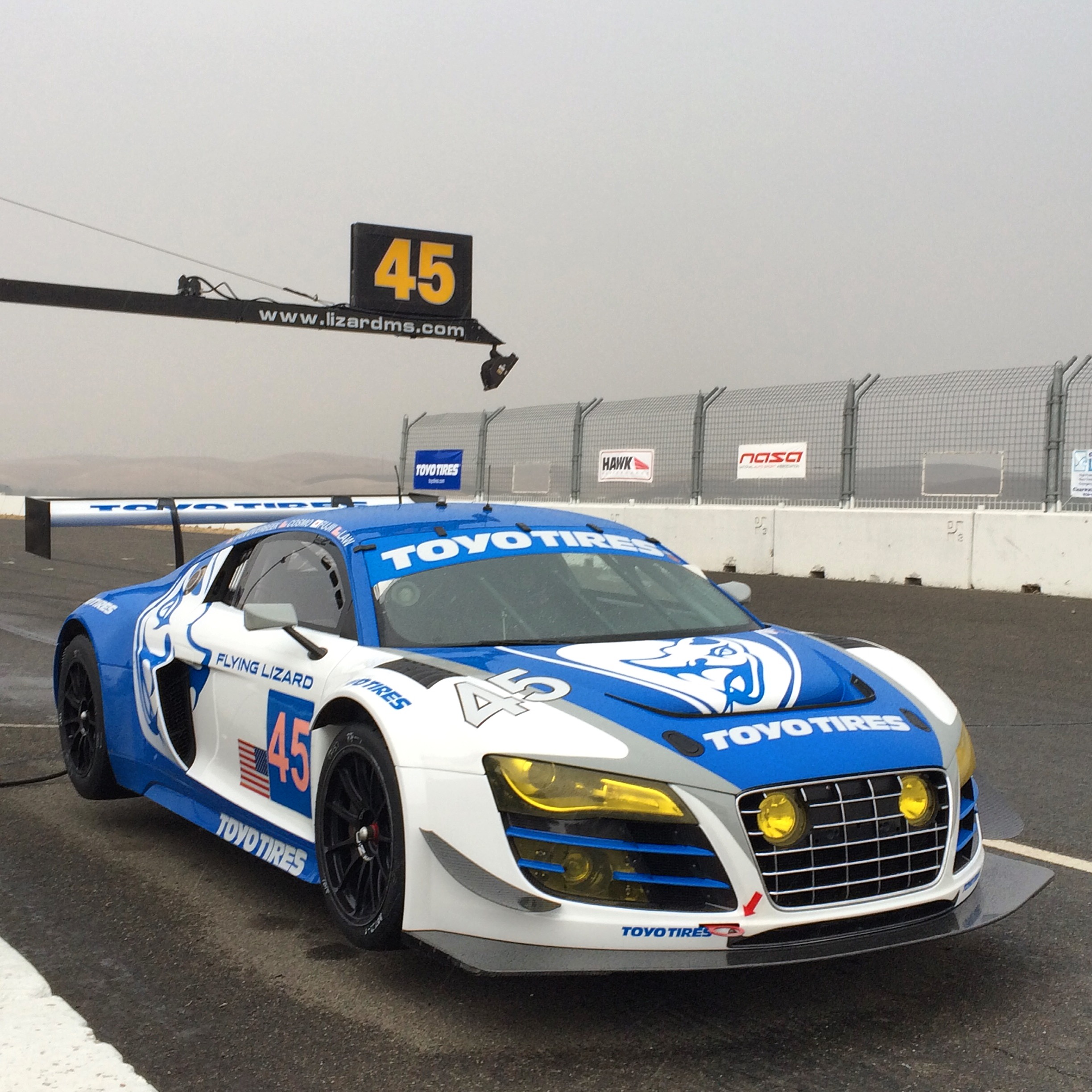 The Flying Lizard Motorsports/Toyo Tires Audi R8 LMS, which won the 2015, 2016, 2017 25 Hours of Thunderhill.